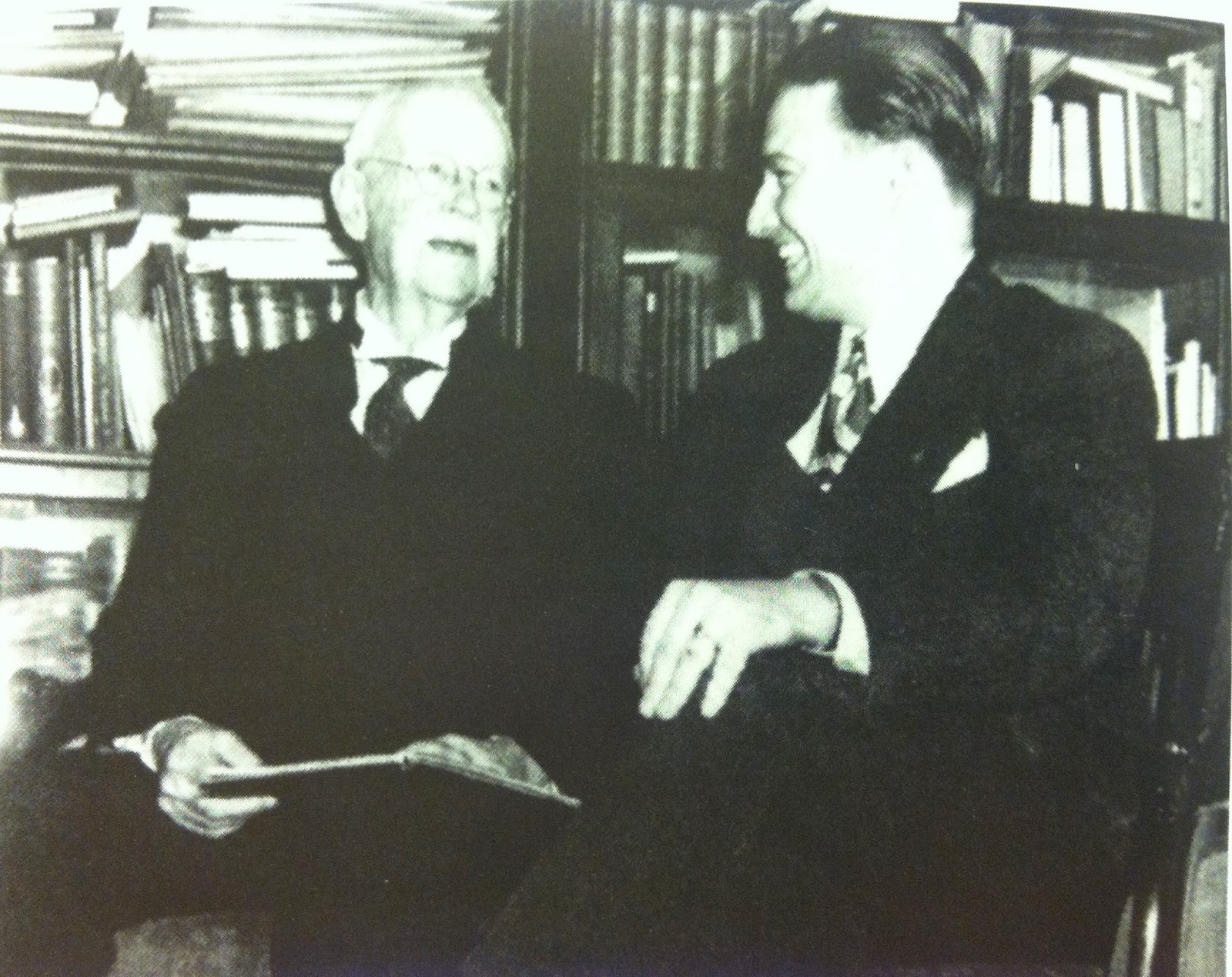 The magic historian Henry R. Evans with magician Milbourne Christopher.